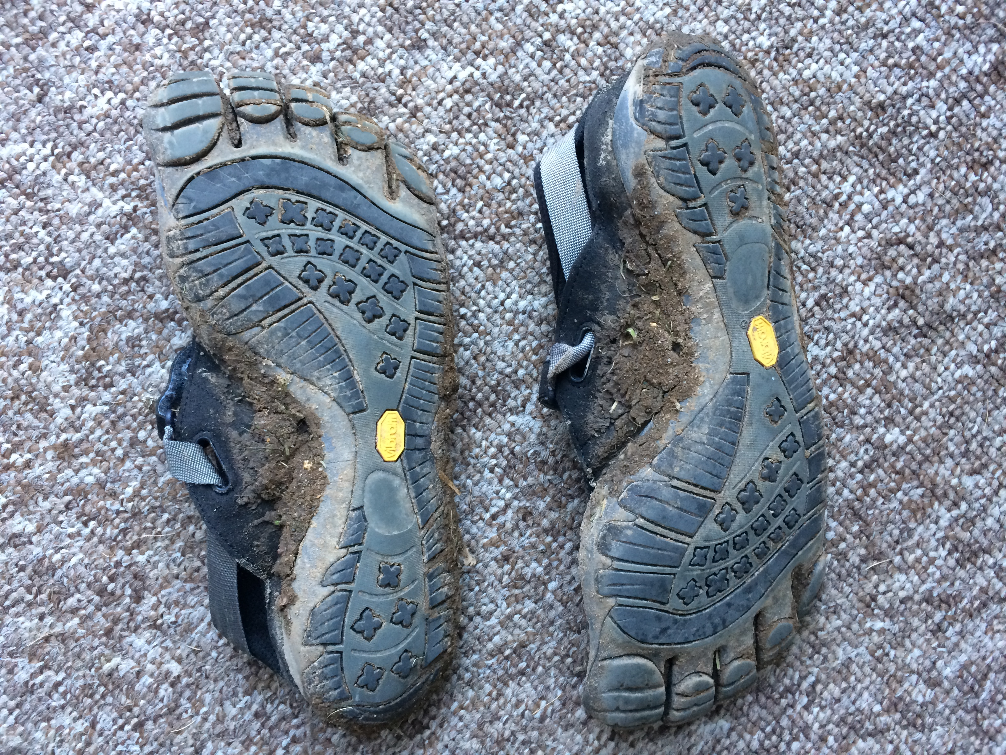 Dirty Vibram shoes after a run.